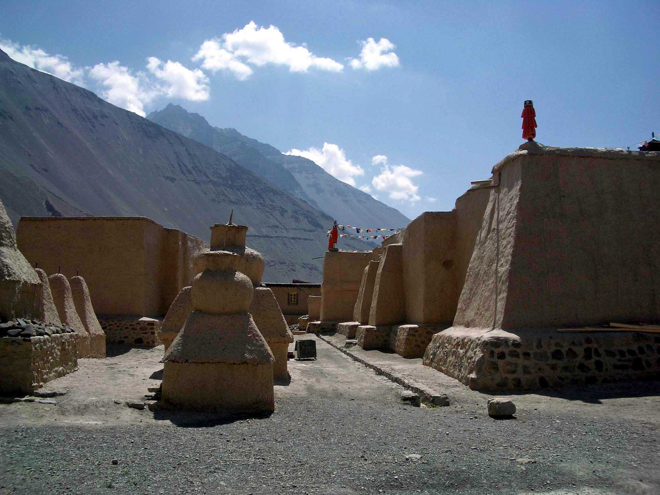 This photo was taken by myself at Tabo in 2004